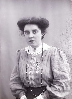 Theresa Garnett by Col. Linley Blathwayt